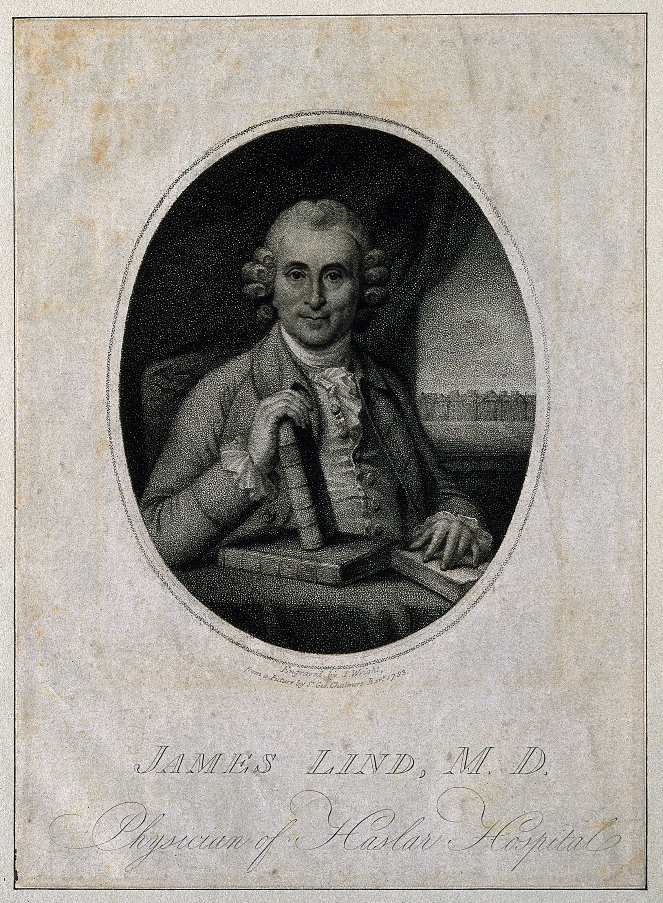 James Lind. Stipple engraving by J. Wright after Sir G. Chalmers, 1783. Iconographic Collections Keywords: portrait prints; James Lind; stipple prints